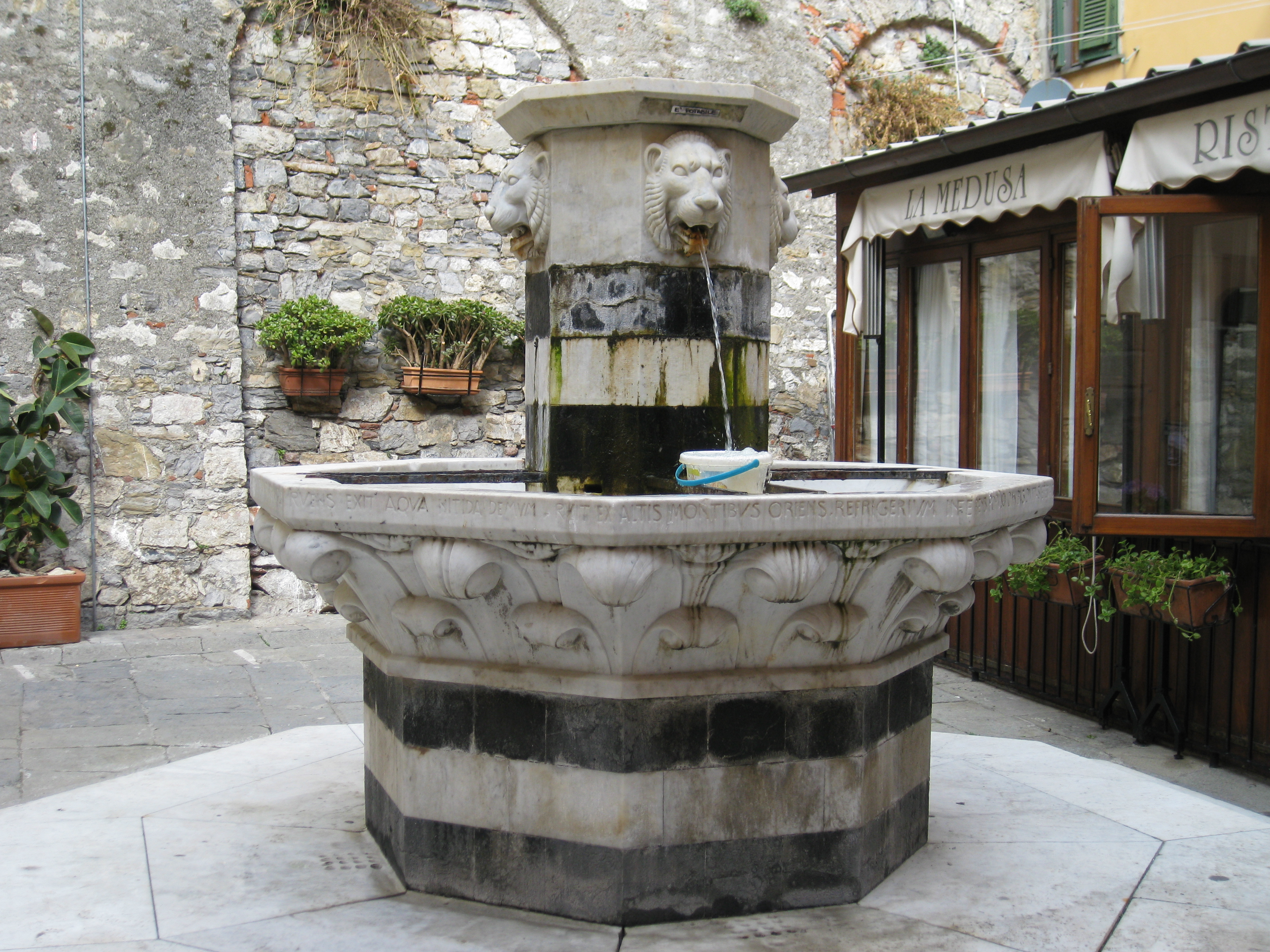 Fountain wirh lions in Portovenere ITALY